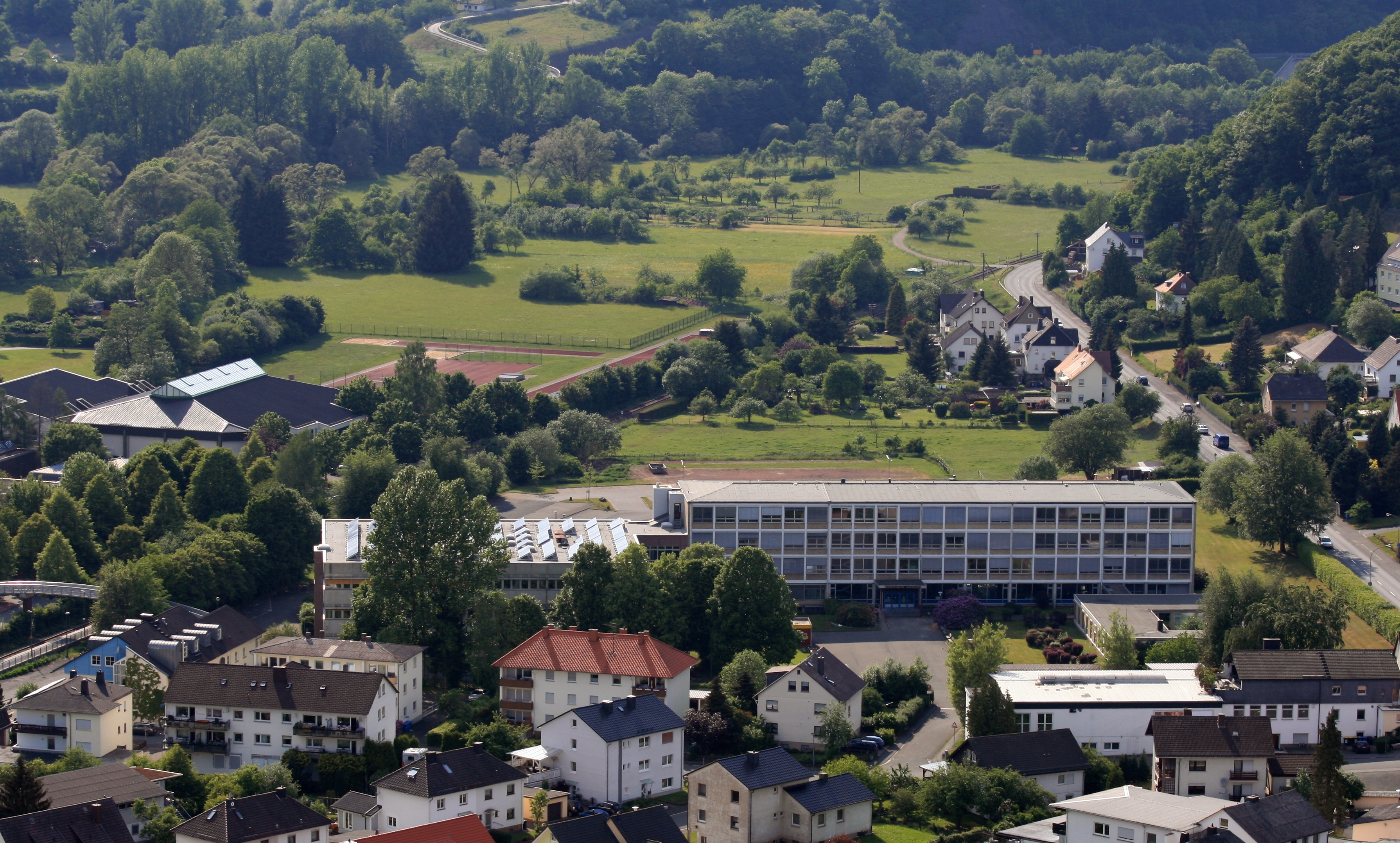 Germany, Hesse, Biedenkopf/Lahn: Vocational Schools Biedenkopf.